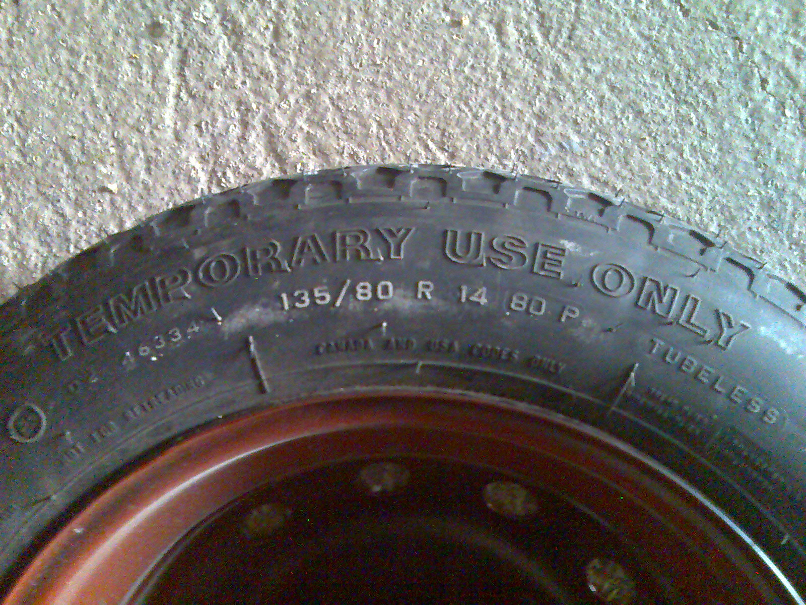 Codes in a spare tire.